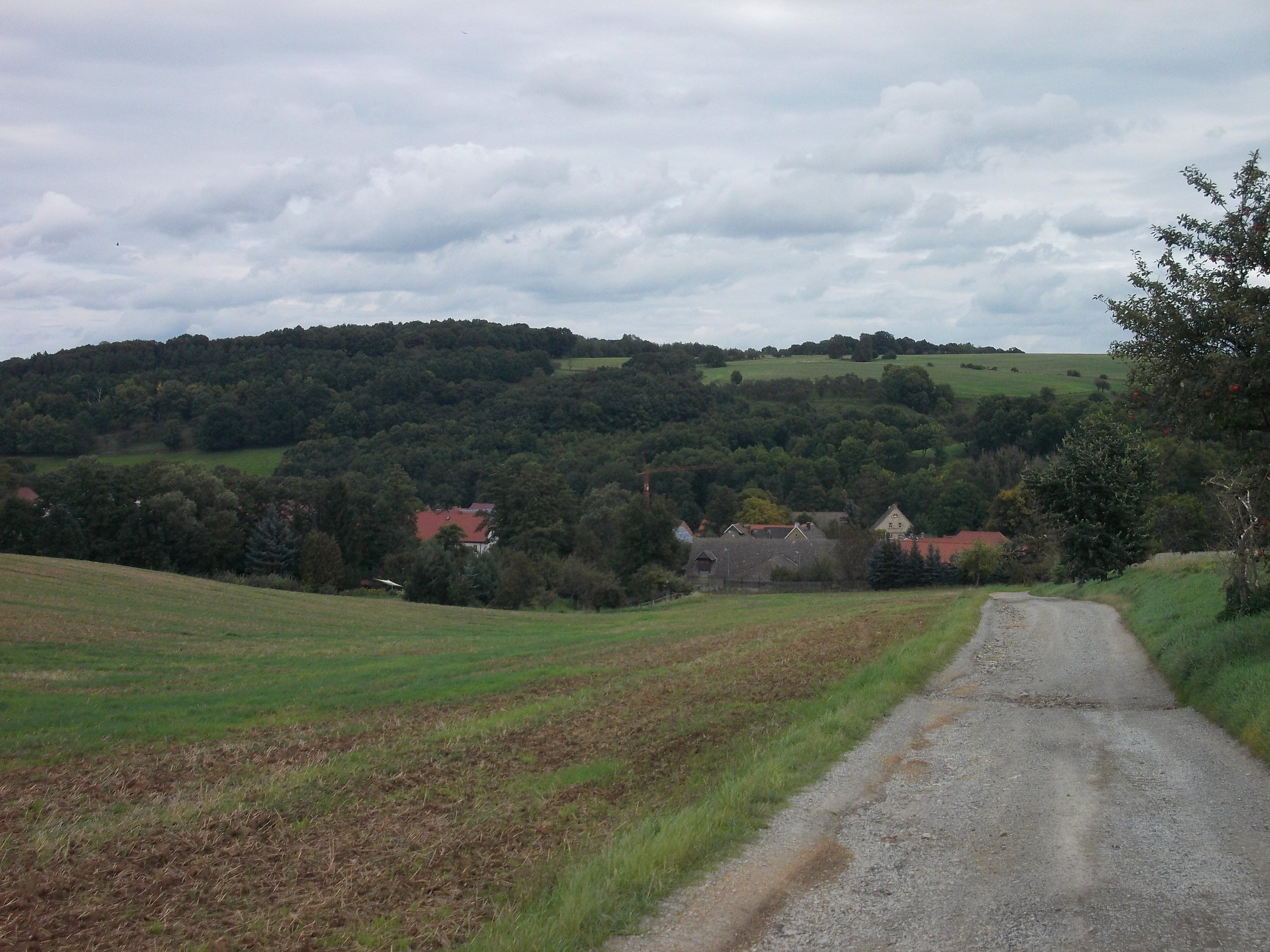 Beuditz (Naumburg, district: Burgenlandkreis, Saxony-Anhalt) from the south-west